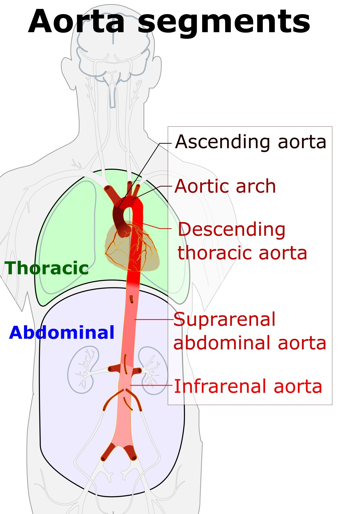 Segments of the aorta, including: Thoracic aorta Ascending aorta Tortic arch Descending thoracic aorta Abdominal aorta Suprarenal abdominal aorta Infrarenal abdominal aorta